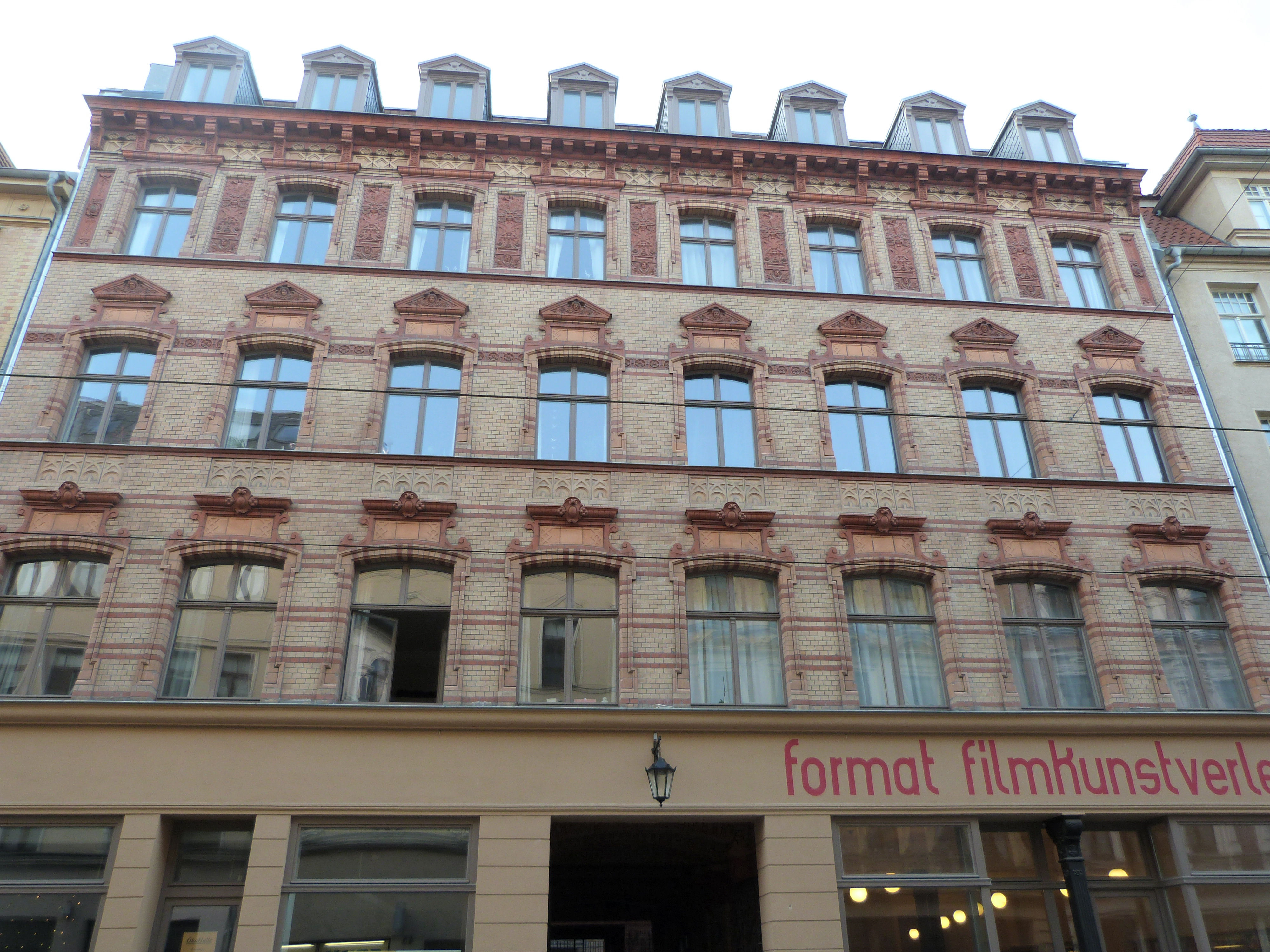 House No. 21 Geiststrasse in Halle (Saale)